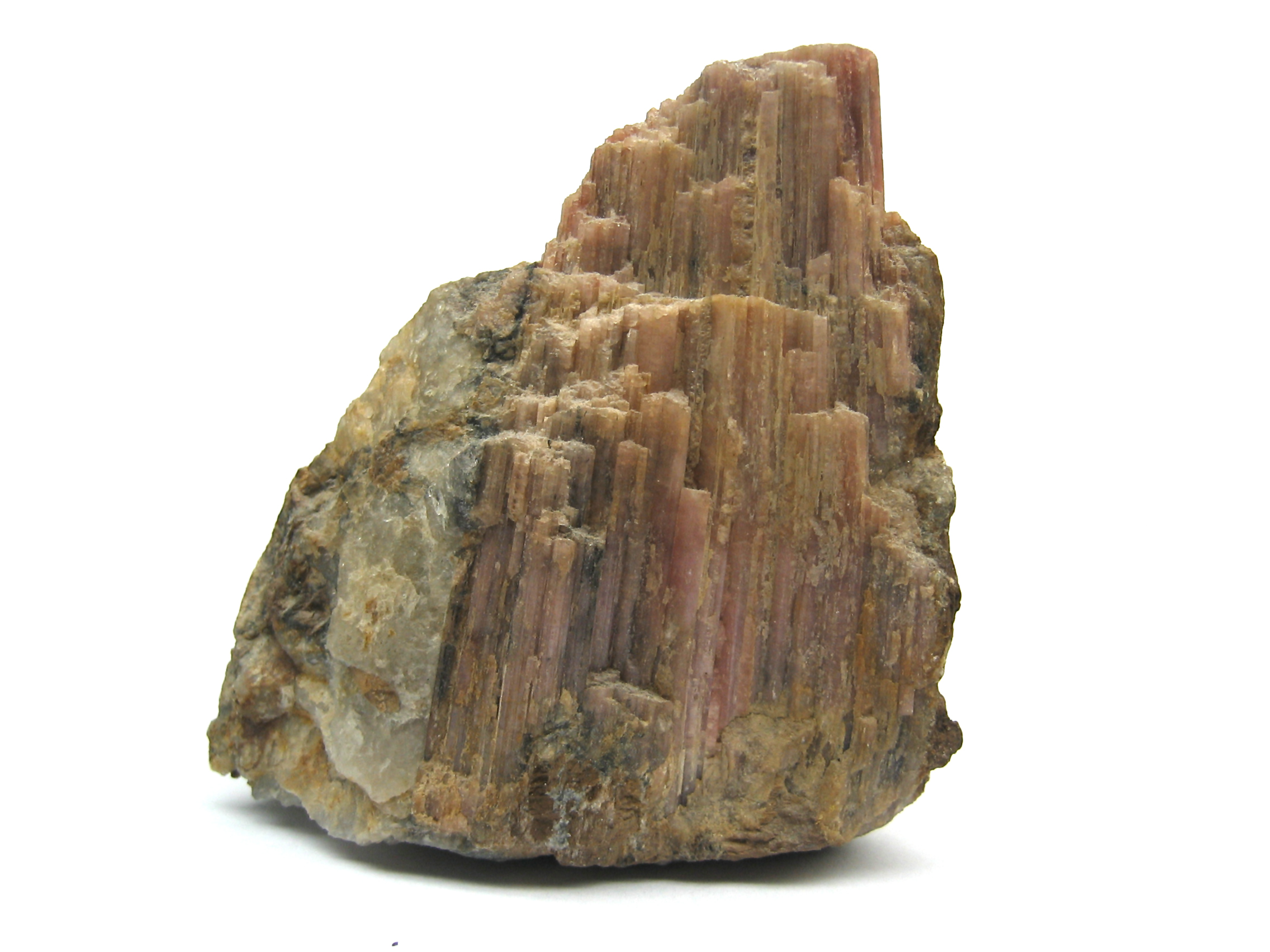 Macro of a Tourmaline mineral about 4 inches (10 cm) tall.